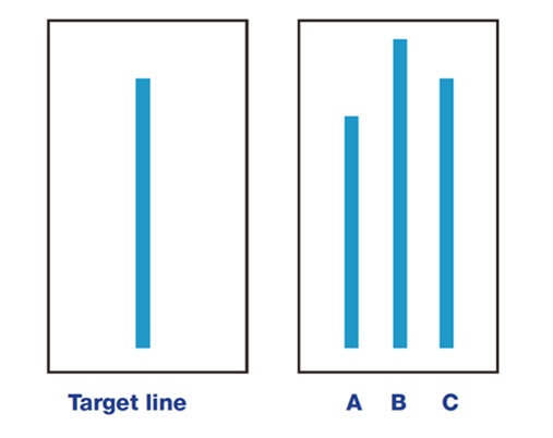 Asch conformity experiment line comparison